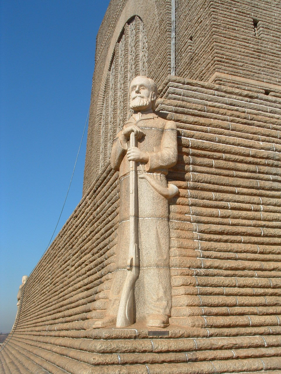 Piet Retief statue at the Voortrekker Monument, Pretoria, designed by F. Kruger and carved by Skaris